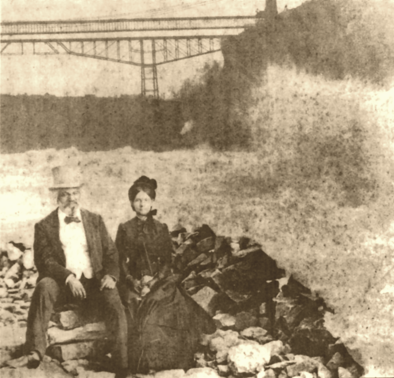 Frederick and Helen Pitts Douglass at Niagara Falls, New York, soon after their marriage in January 1884.